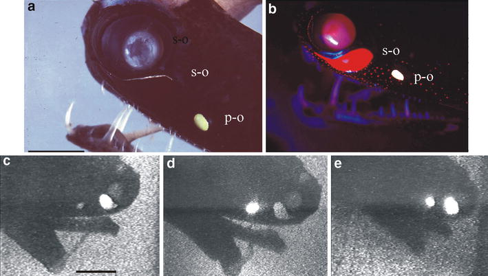 "A The head and lower jaw of a fresh specimen of Malacosteus. The edge of the reflector shows the position of the dark brown suborbital photophore (s-o) and whitish postorbital/accessory (p-o). B Similar image in longwave ultraviolet light showing the intense red fluorescence of the suborbital photophore. C-E Three ISIT video frames from a series of flashes from a single specimen, showing C the flashing of the SO alone, D the PO alone and E both PO and SO. The three frames are sequential, with an interval of 4 s between C and D and 2.6 s between D and E. The postorbital actually flashed 1 s after the suborbital but its intensity at that point caused the ISIT image to bloom." Scale bars: 5 mm